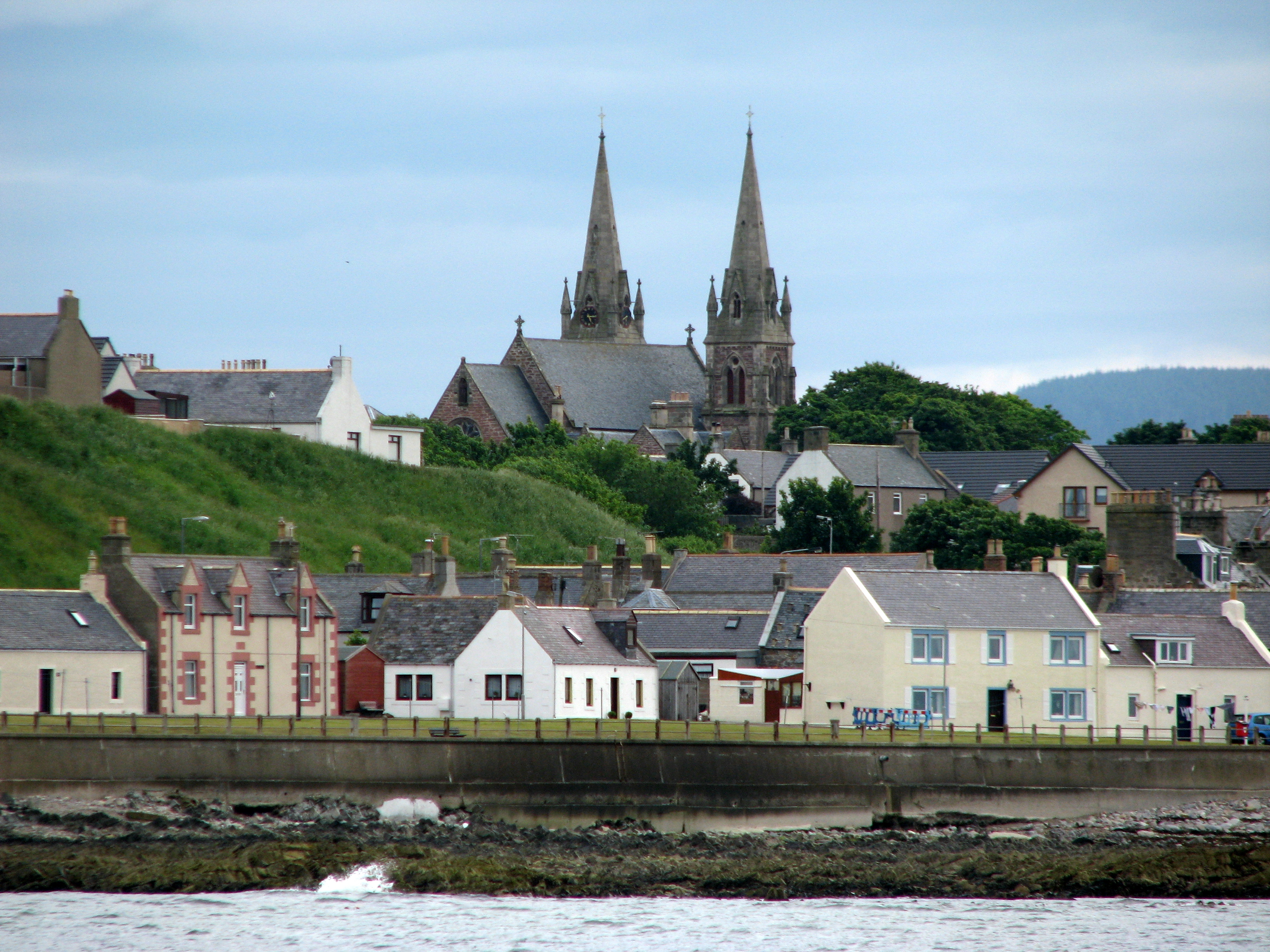 Buckpool and St Peter's Church, Buckie, Banffshire, Scotland